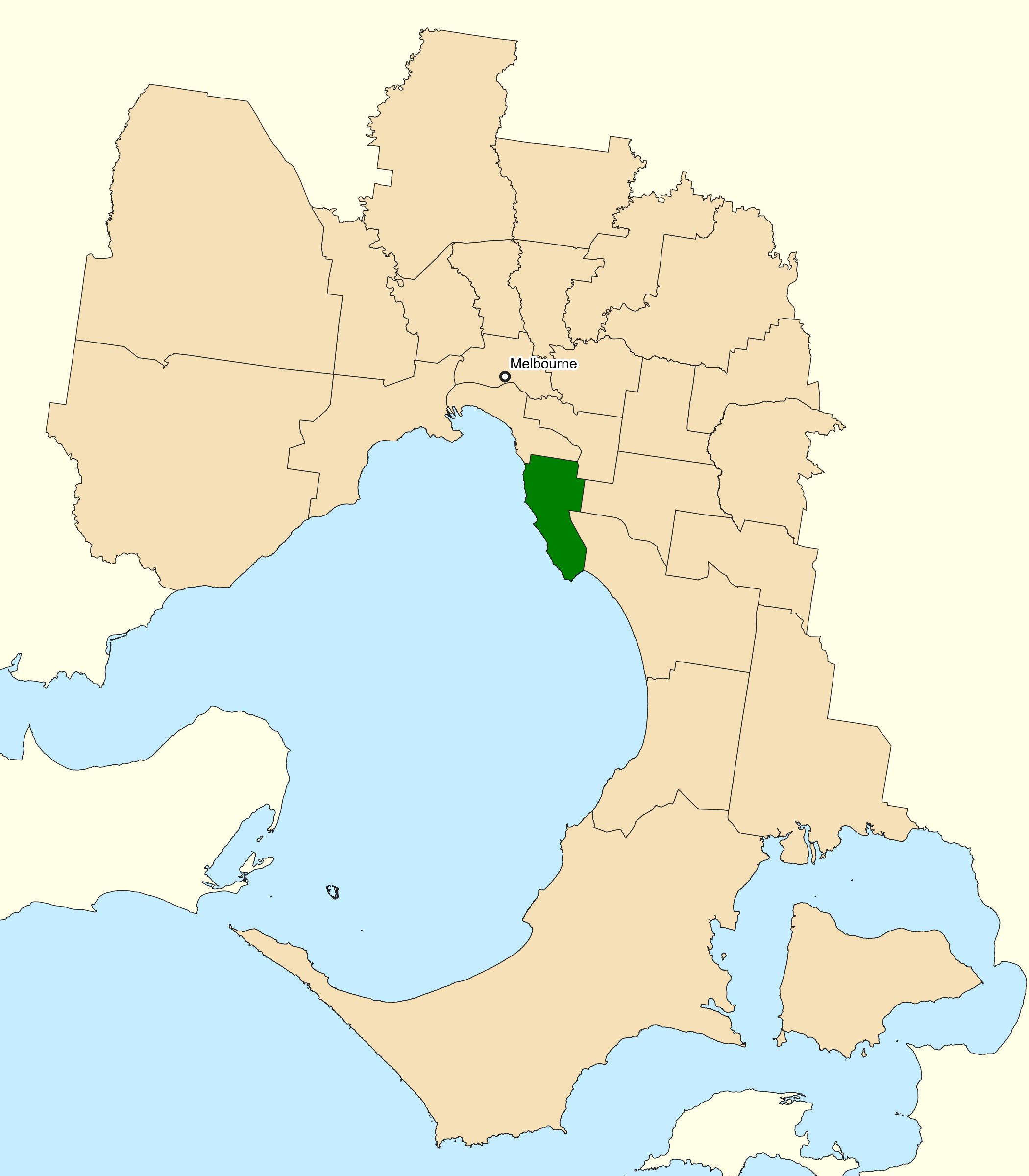 Location of the Australian federal electoral division of Goldstein (dark green) in Greater Melbourne, Victoria as of the 2019 Australian federal election. Incorporates or developed using Administrative Boundaries ©PSMA Australia Limited licensed by the Commonwealth of Australia under Creative Commons Attribution 4.0 International licence (CC BY 4.0).